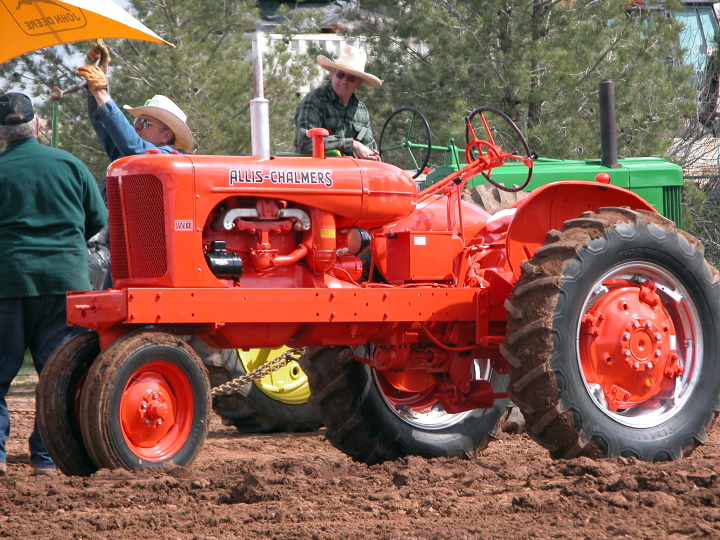 Allis-Chalmers WD tractor